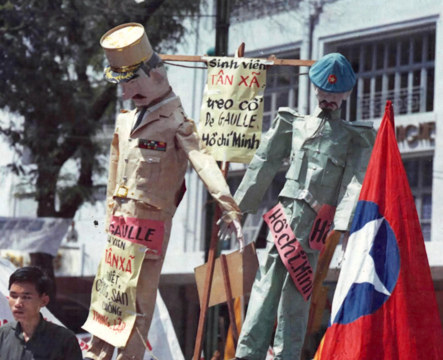 Charles de Gaulle and Ho Chi Minh are hanged in effigy during the National Shame Day celebration in Saigon, July 19, 1964, observing the tenth anniversary of the July 1954 Geneva Agreements. Courtesy United States Army